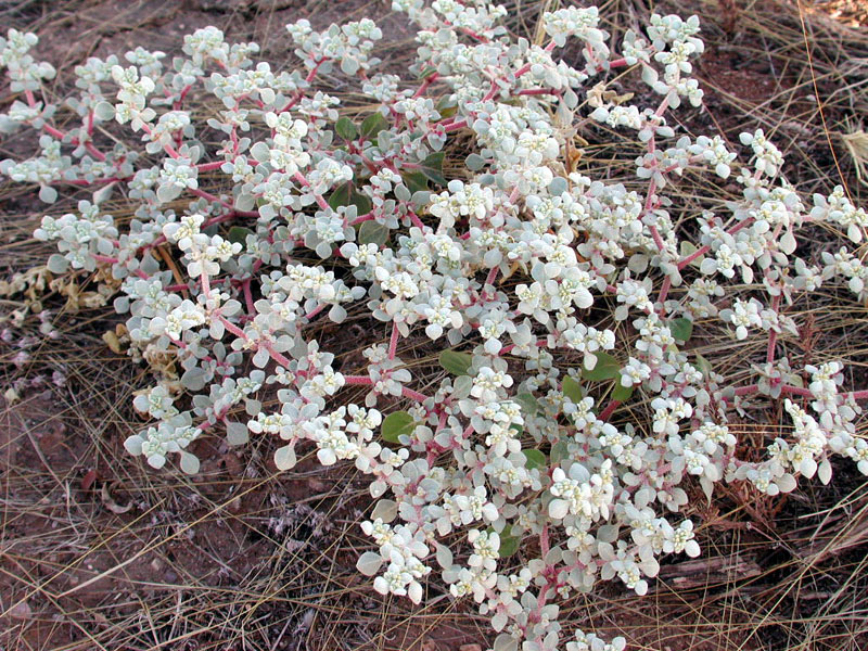 Tidestromia lanuginosa, a Sonoran Desert annual that grows and flowers after summer rains. Photographed at Phoenix, Maricopa Co., Arizona, USA